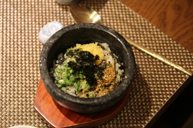 albap (roe rice)